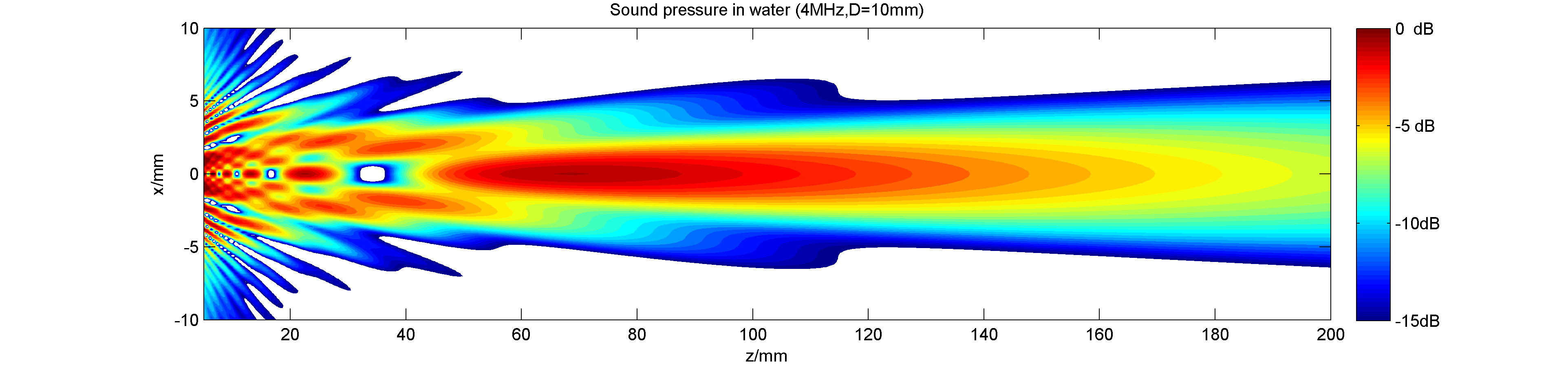 Sound field, plane transducer, f=4MHz, D=10mm, c=1500 m/s (water)